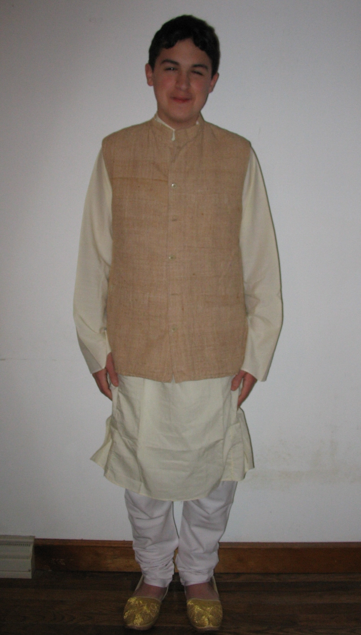 Cotton churidar worn with cotton kurta and bandi or Nehru vest.